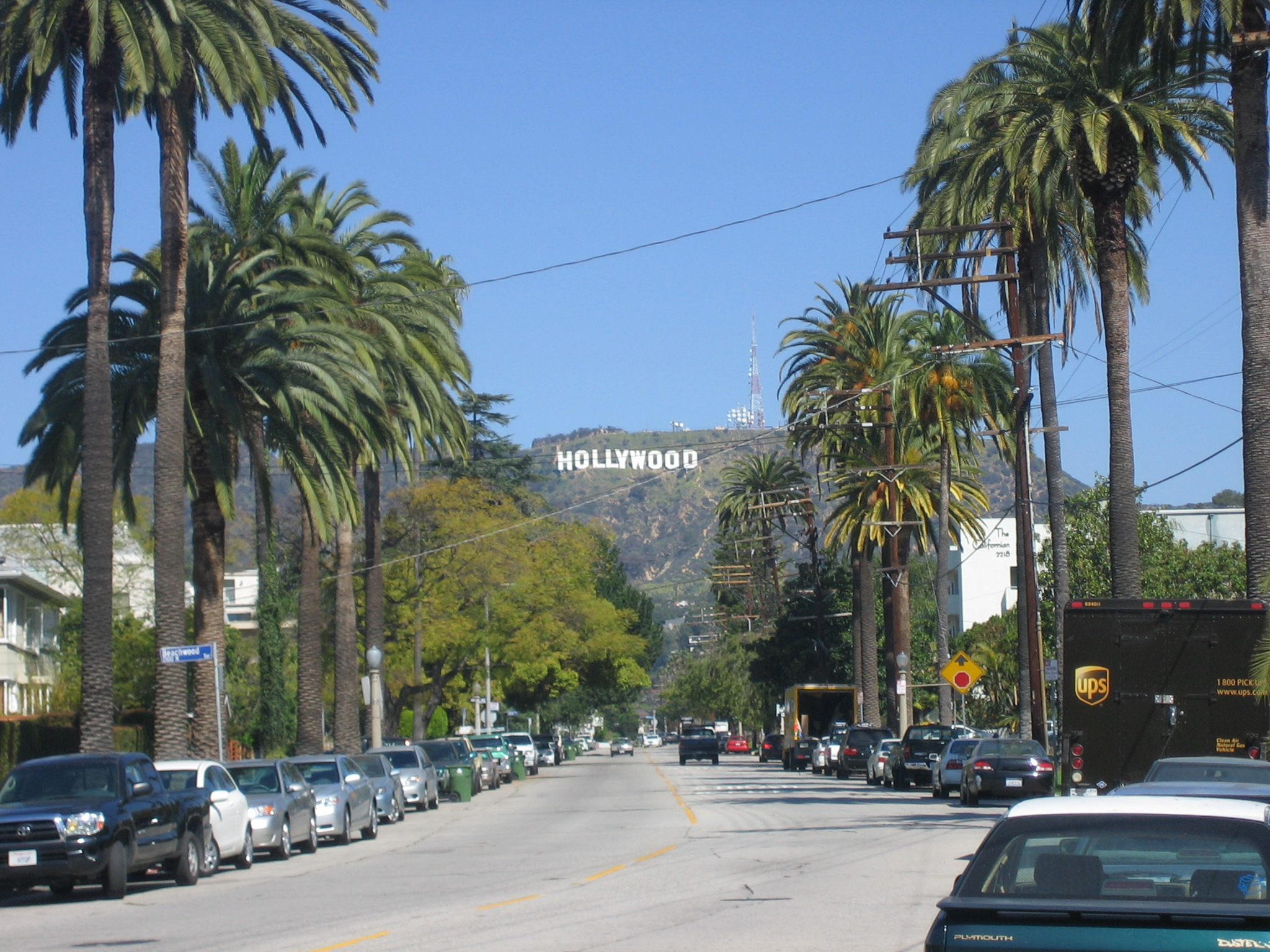 Residential neighborhood in Hollywood, with the Hollywood Sign in backround. The street is lined with old Canary Island date palm (Phoenix canariensis) trees.